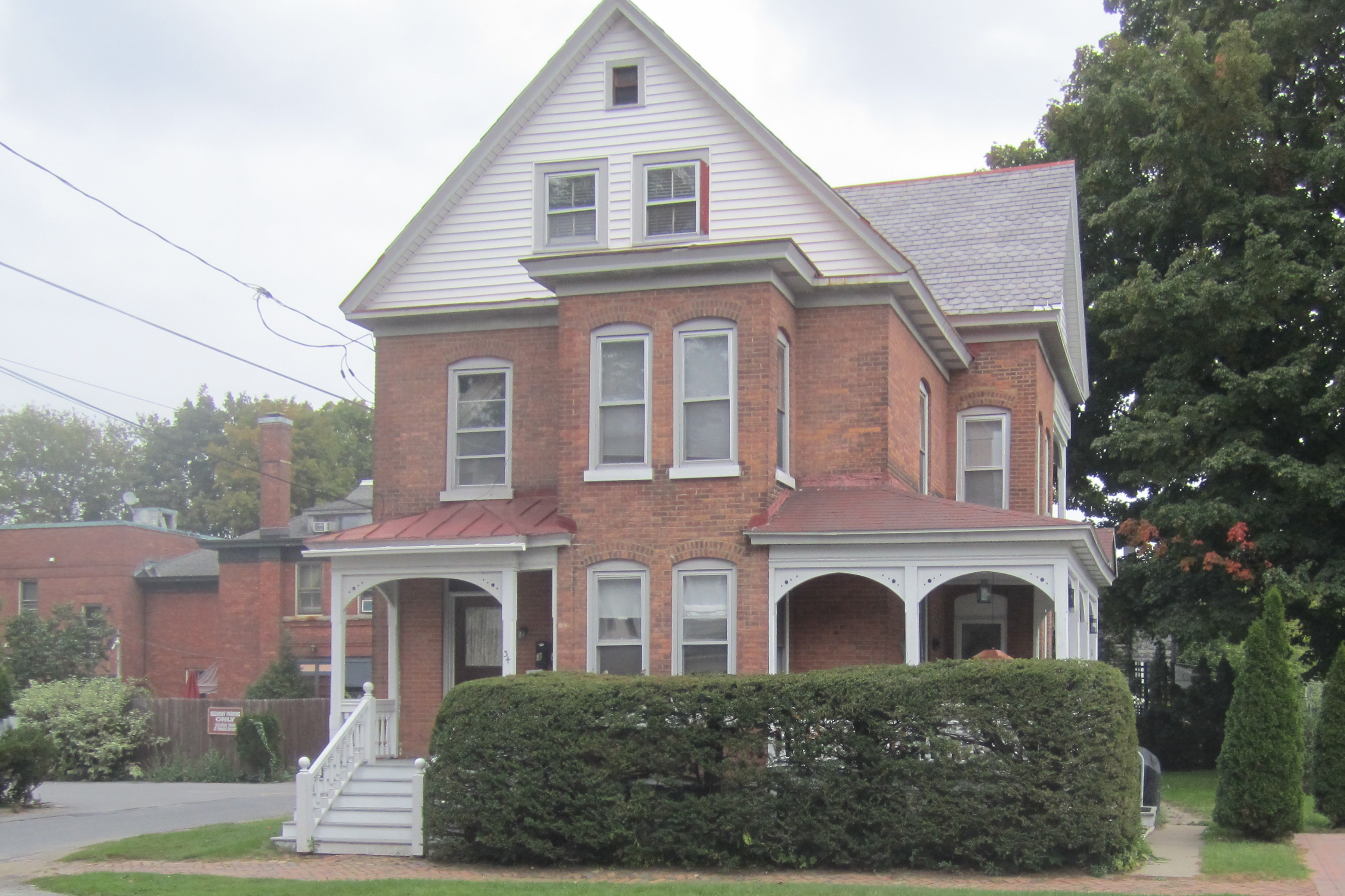 Home at 34 Clark St. designed by Robert Newton Brezee (1888)